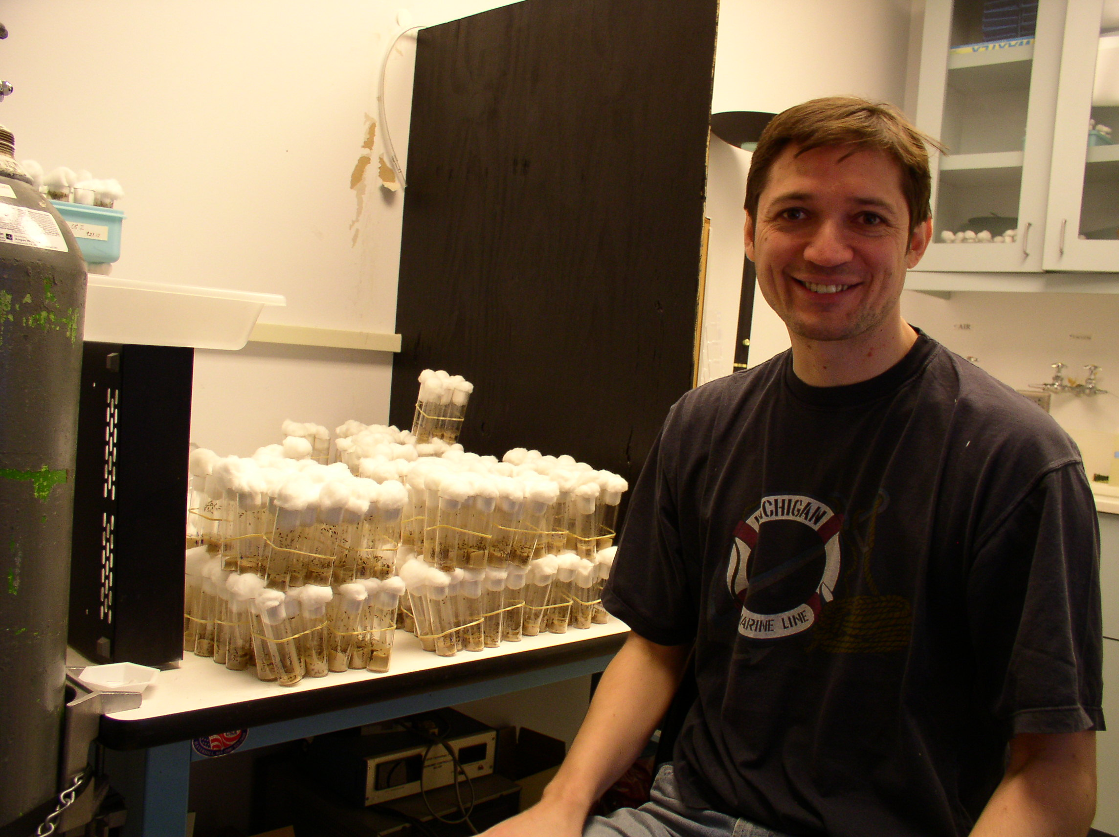 all those vials have cotton plugs and are filled with fruit fly larva